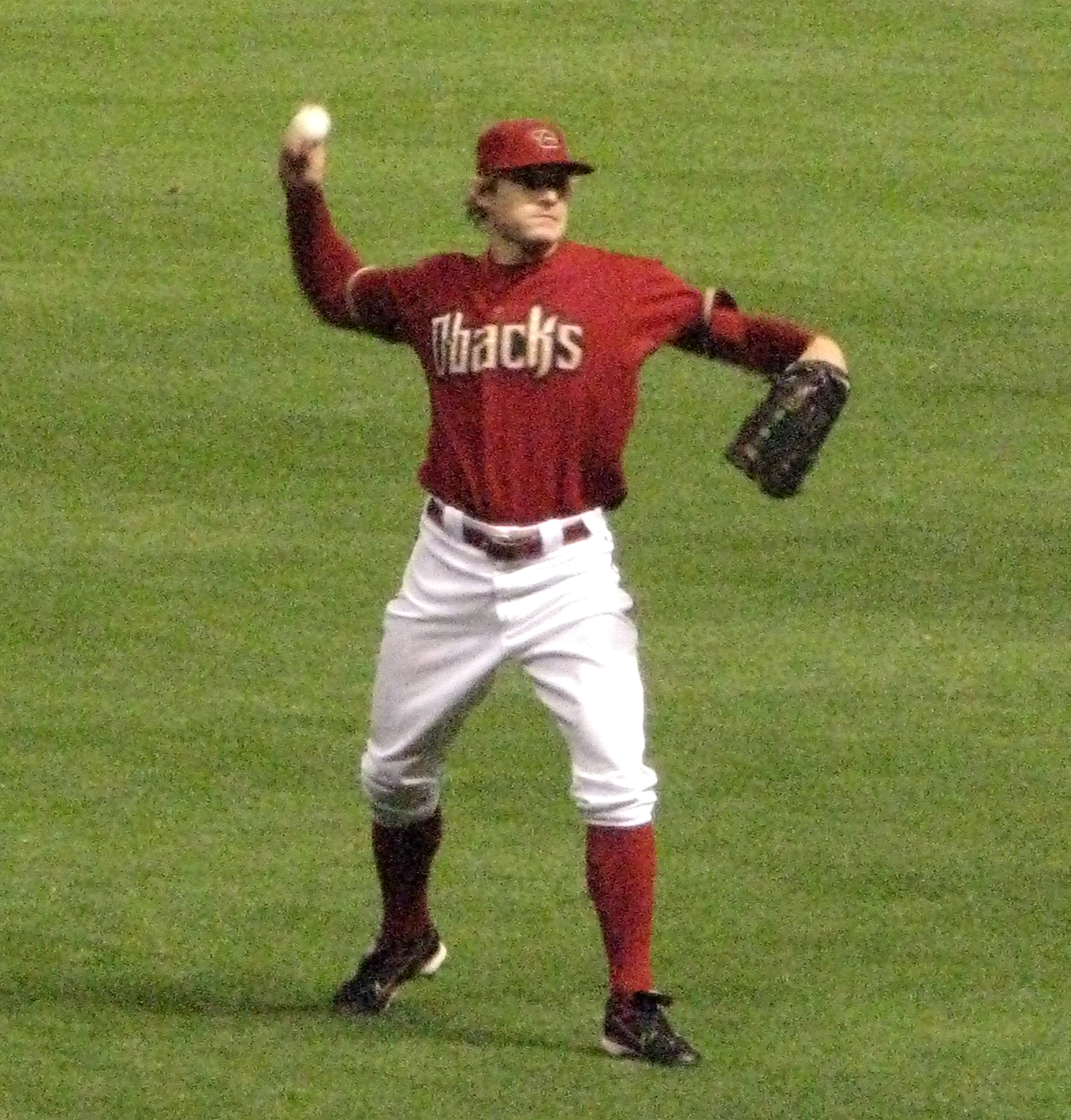 Photo by Craig Fujii 00:55, 12 May 2008 . . 2,244×2,346 (3.95 MB) . . Craigfnp